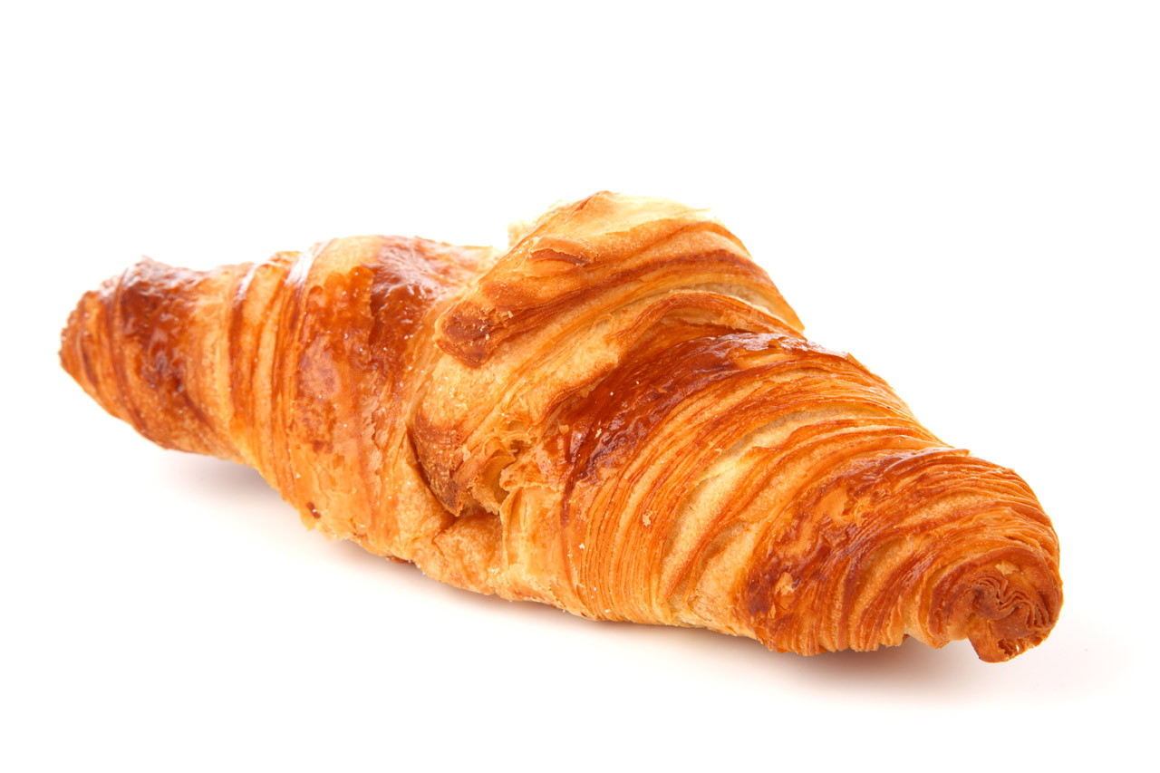 fresh croissant isolated on white background